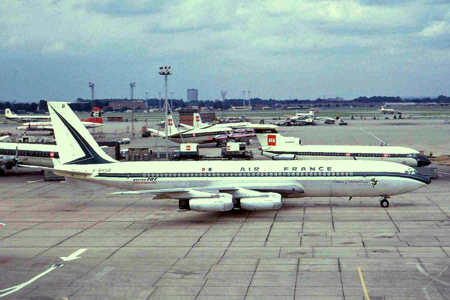 A picture of an airplane (name of it is on the file name).